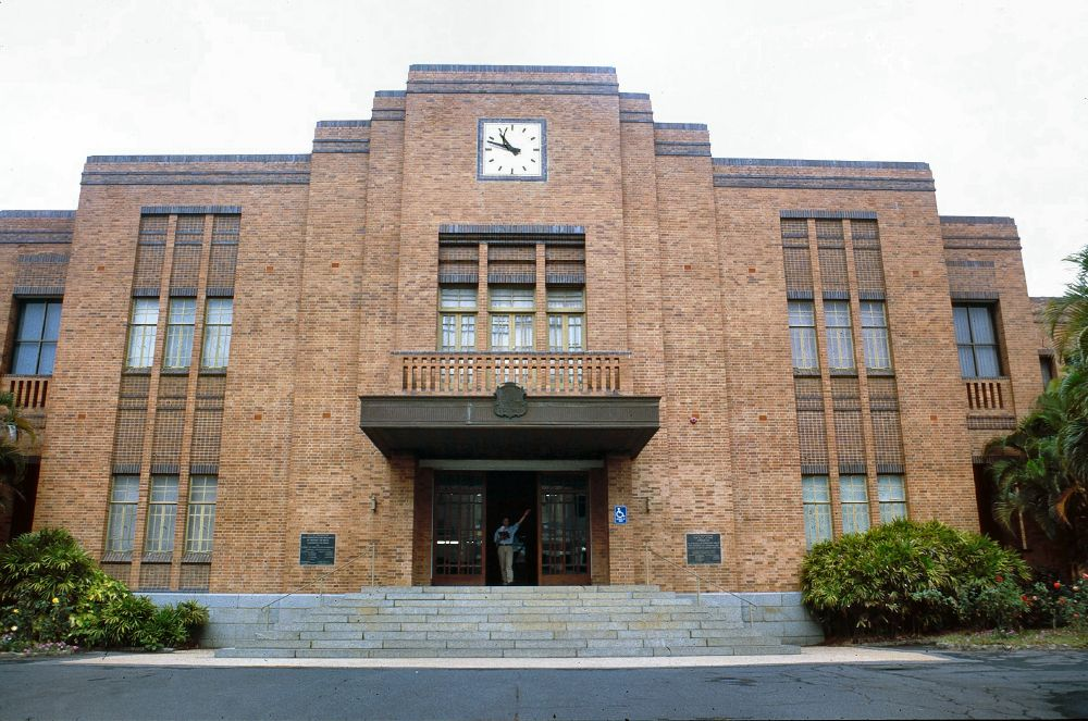 Rockhampton Town Hall (2008)